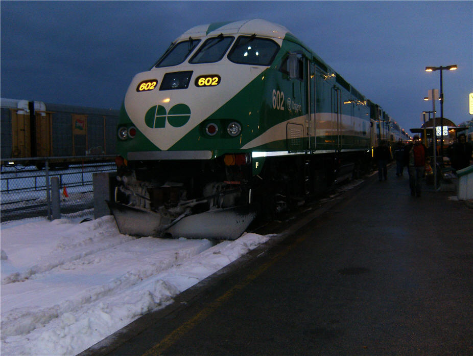 GO Transit MP40PH-3C 602 at Oshawa, preparing to turnaround for rush hour service